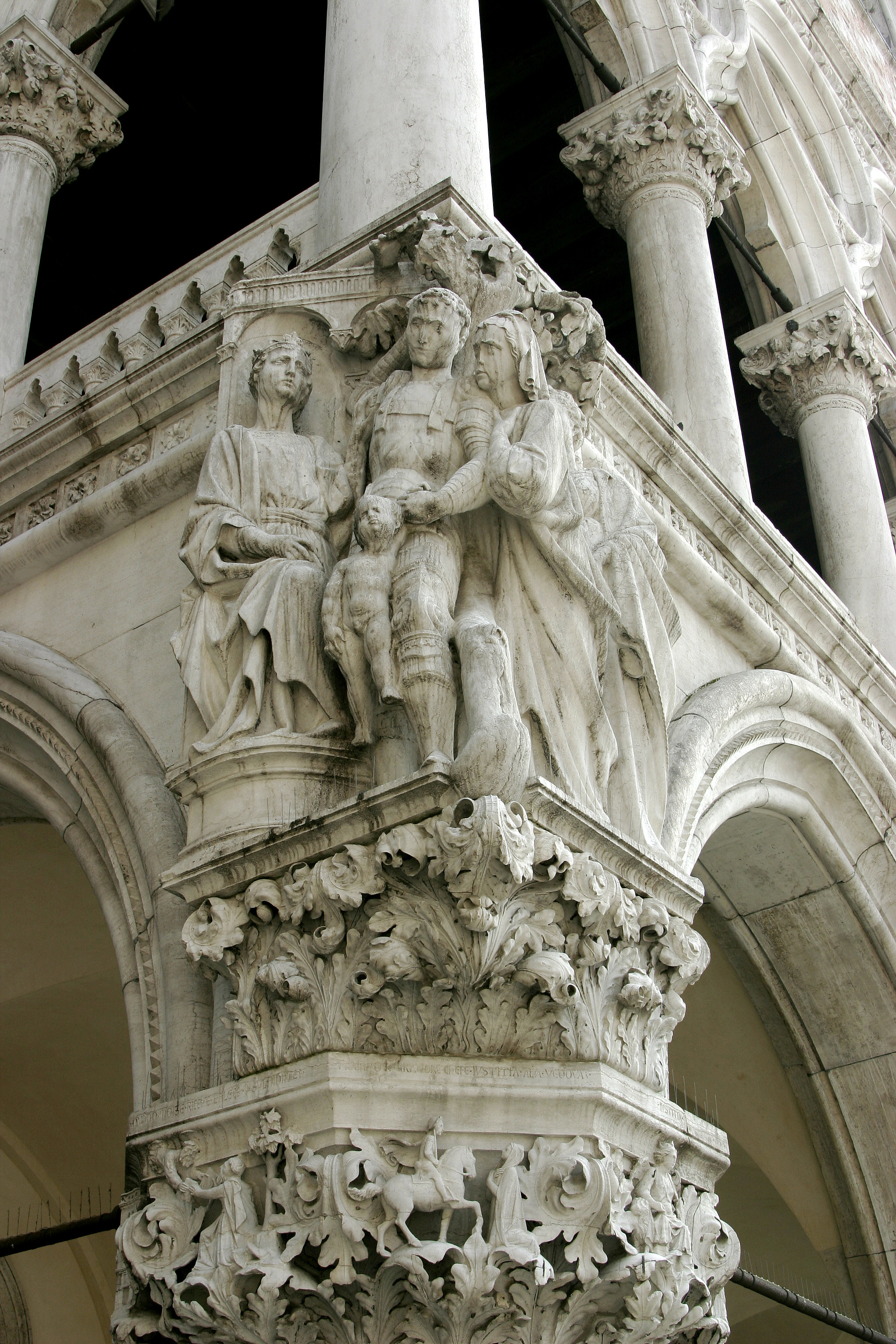 Venice – Doge’s Palace – King Salomon verdict.